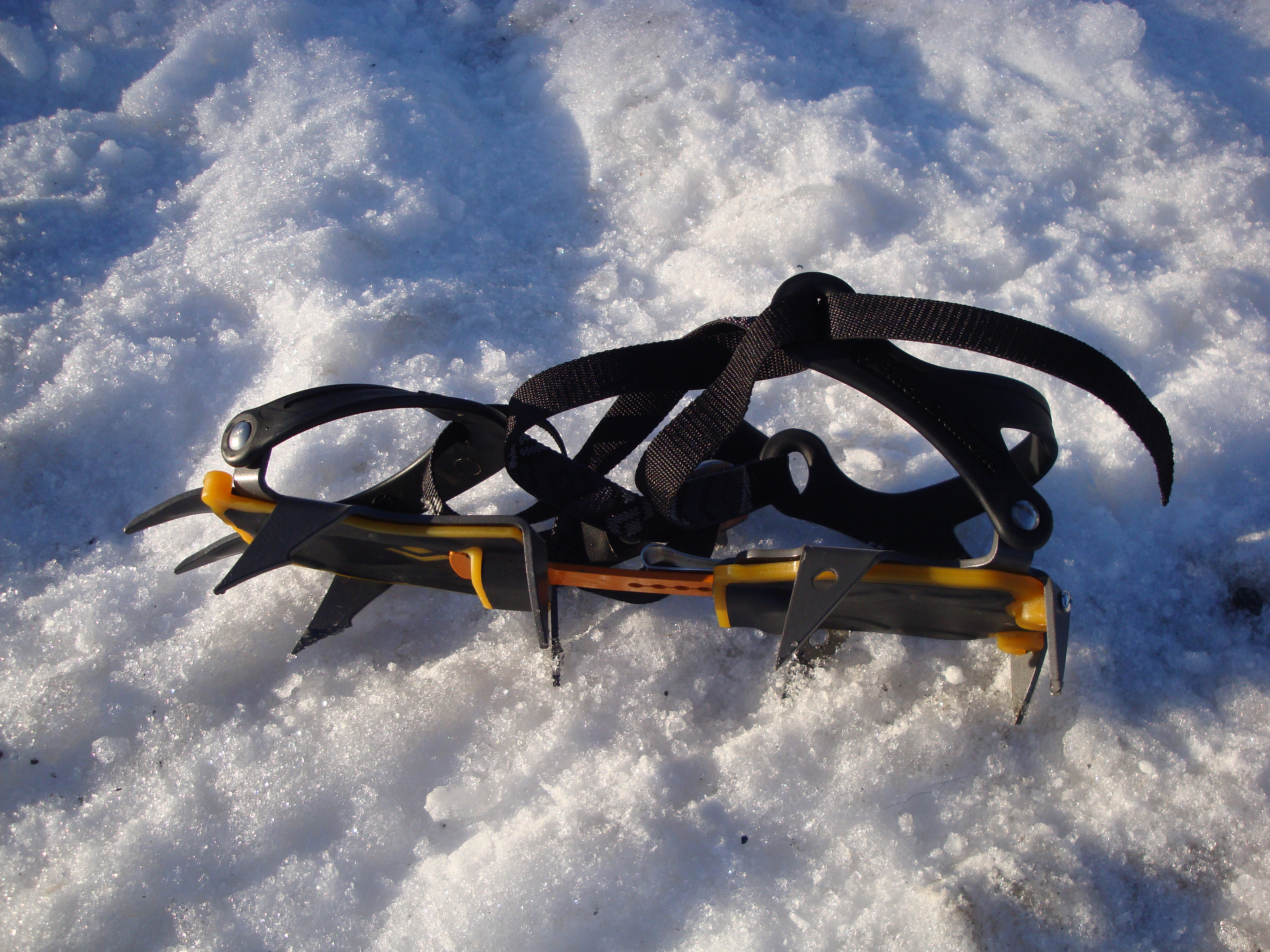 A strap-on crampon (model:Black Diamond Contact Strap)